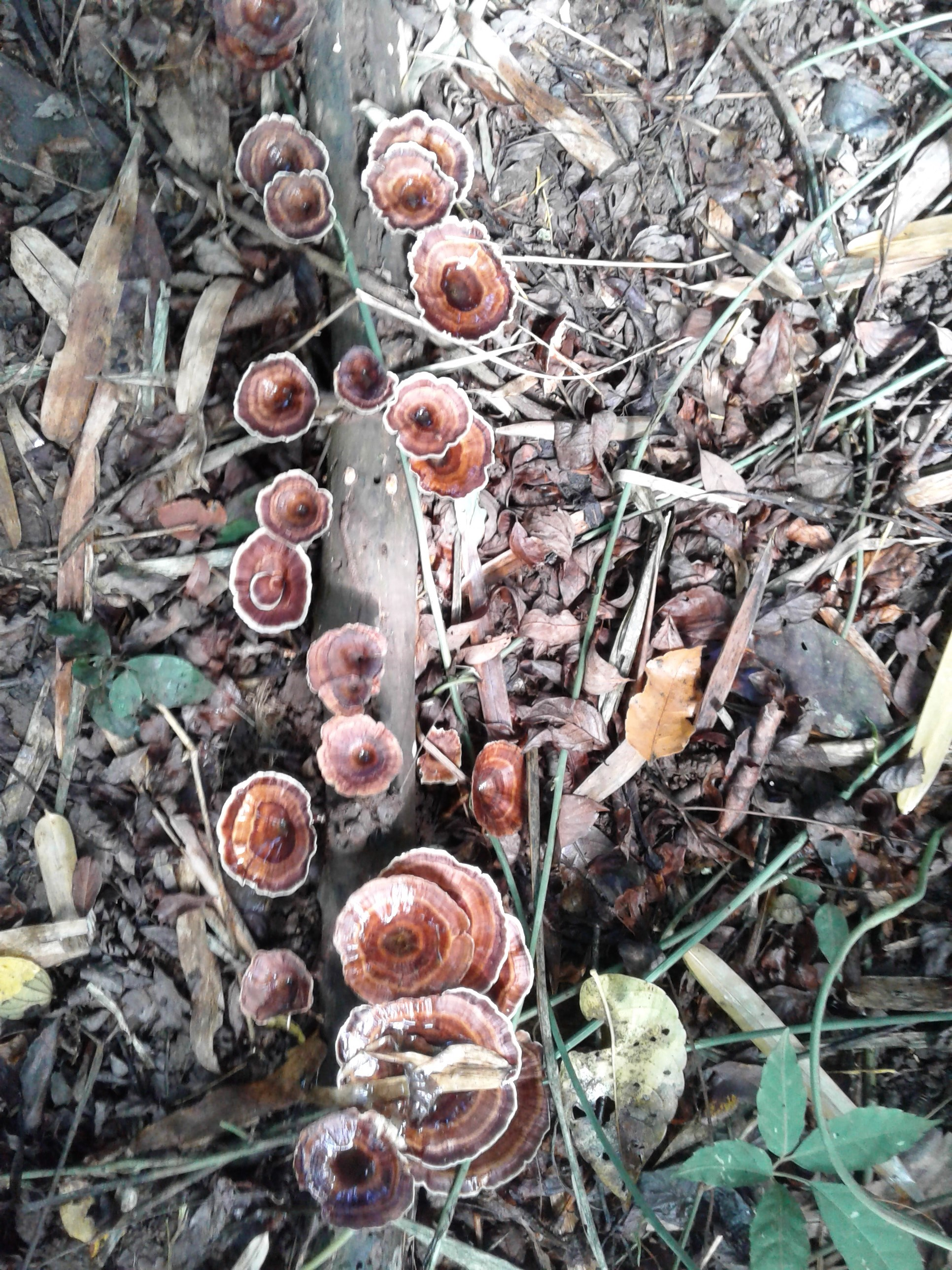 Wild mushroom in the forest of Ban Thapene